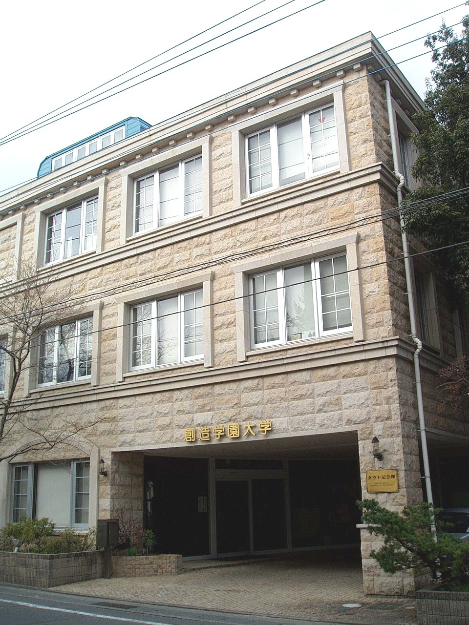 The former Bruno Taut Memorial Museum at Yachiyo Campus, the University of Creation; Art, Music & Social Work (Souzou Gakuen University), located in Takasaki, Gunma, Japan.